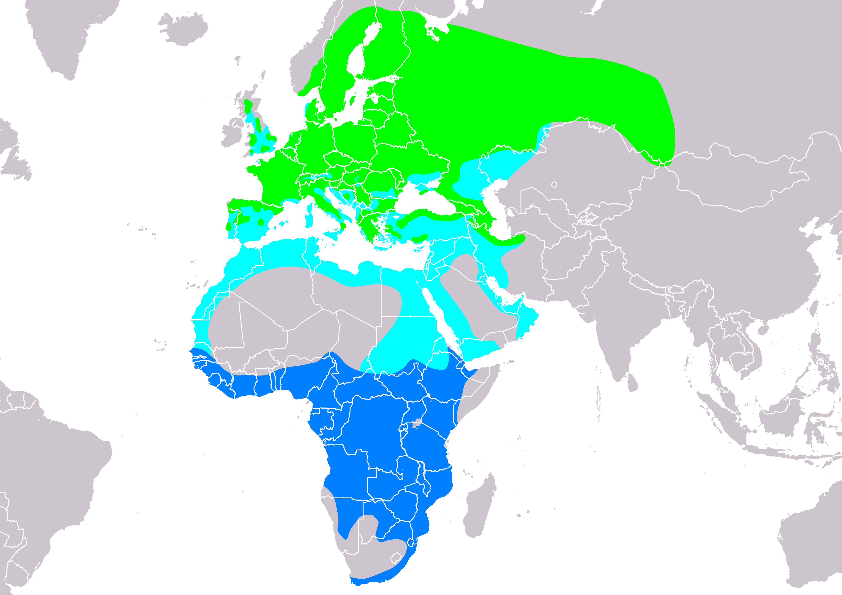 Map of European honey buzzard (Pernis apivorus) according to IUCN version 2018.2 , Legend: Extant, breeding (#00FF00), Extant, passage (#00FFFF), Extant, non-breeding (#007FFF)